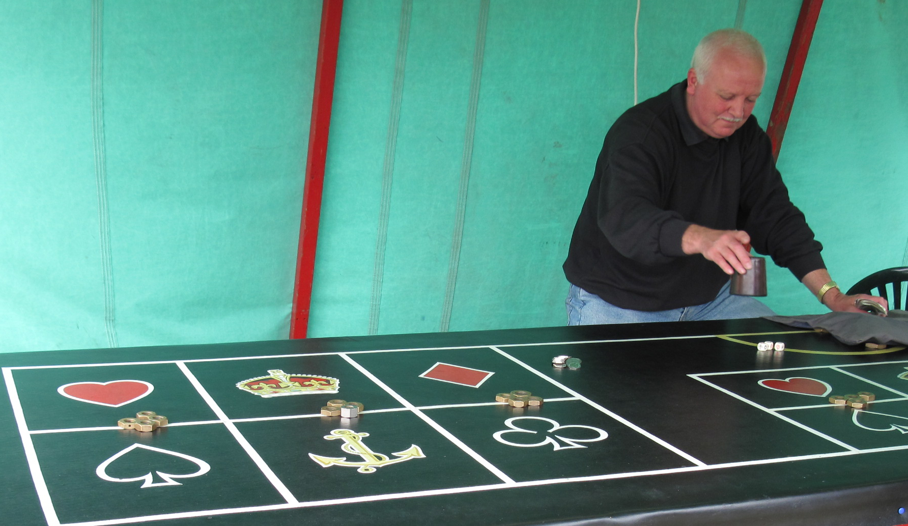 Crown and Anchor stall, Jersey, 4 August 2009